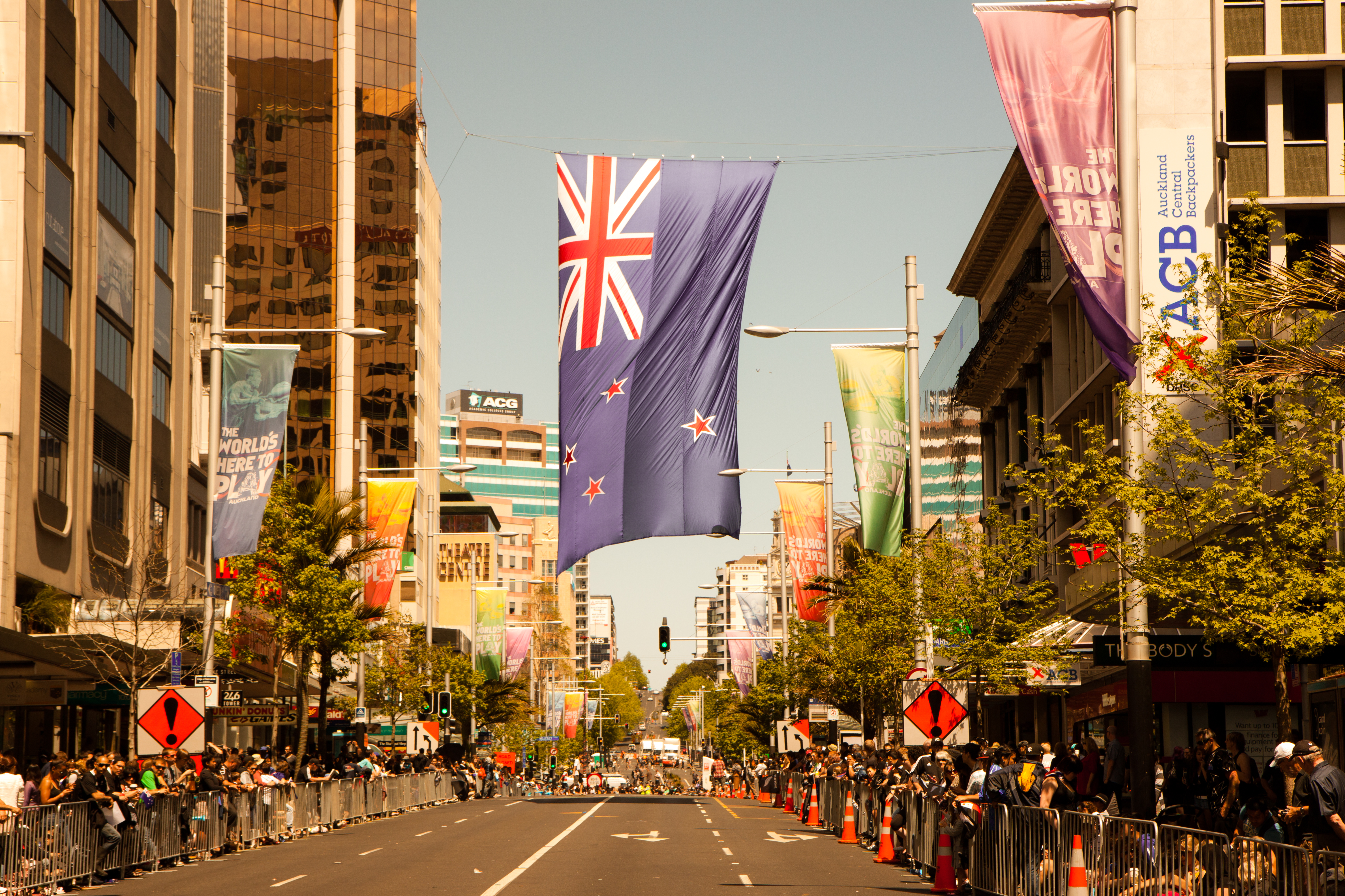 Parade in Auckland after winning by New Zealand national team 2011 Rugby World Cup.